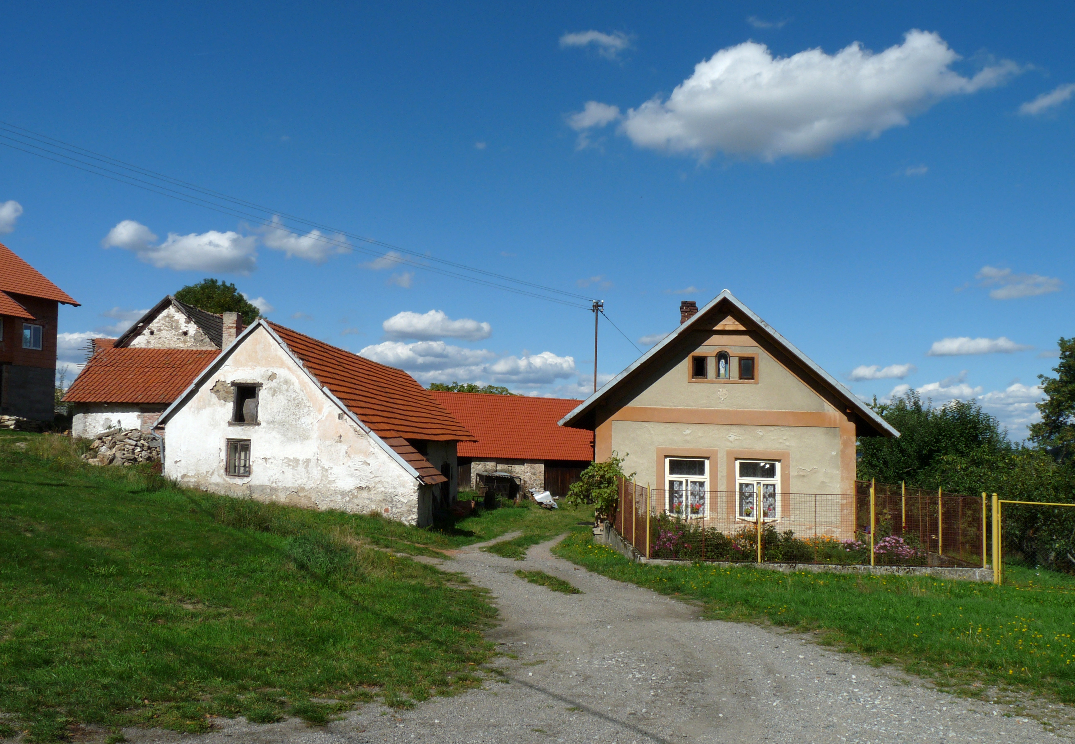 House No 2 in the village of Kochnov, Benešov District, Central Bohemian Region, Czech Republic.